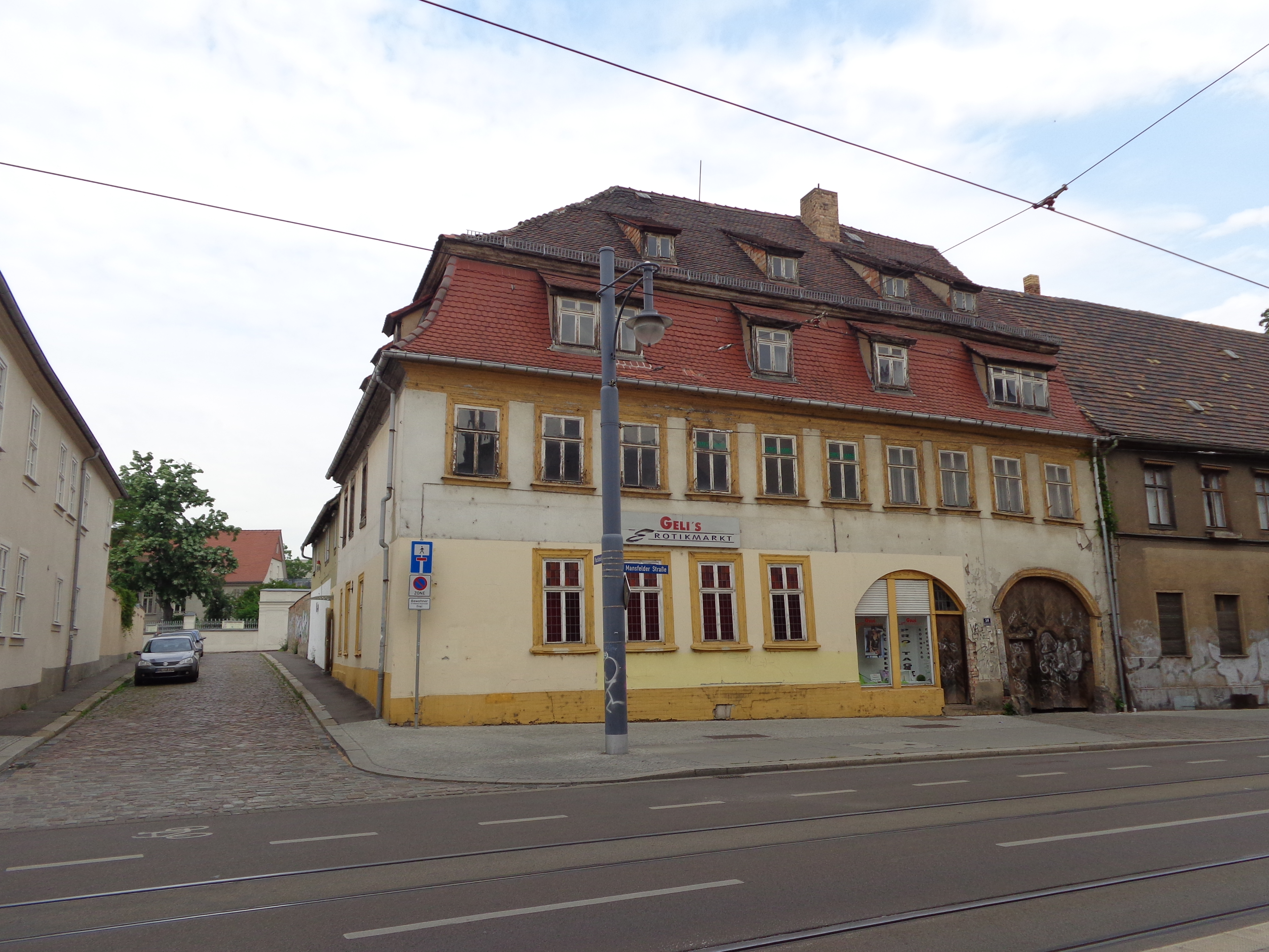 House Mansfelder Str. 58 (formerly inn Gruene Tanne) in Halle an der Saale in June 2015.